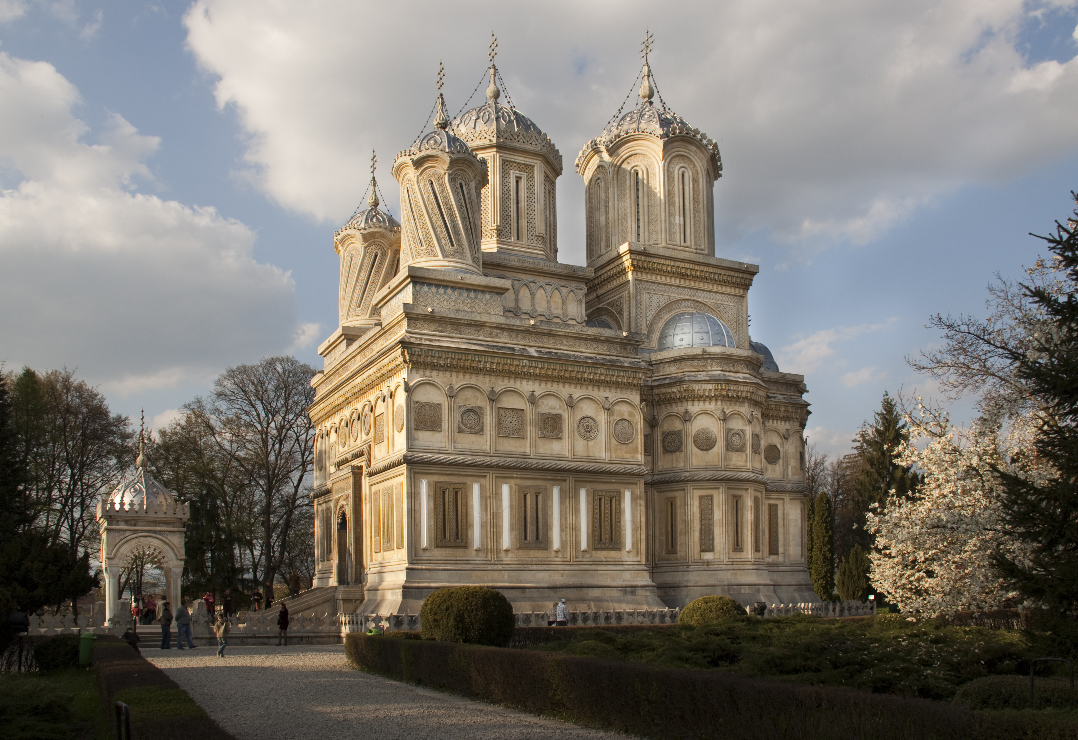 Curtea de Argeş Monastery, Romania: exterior.